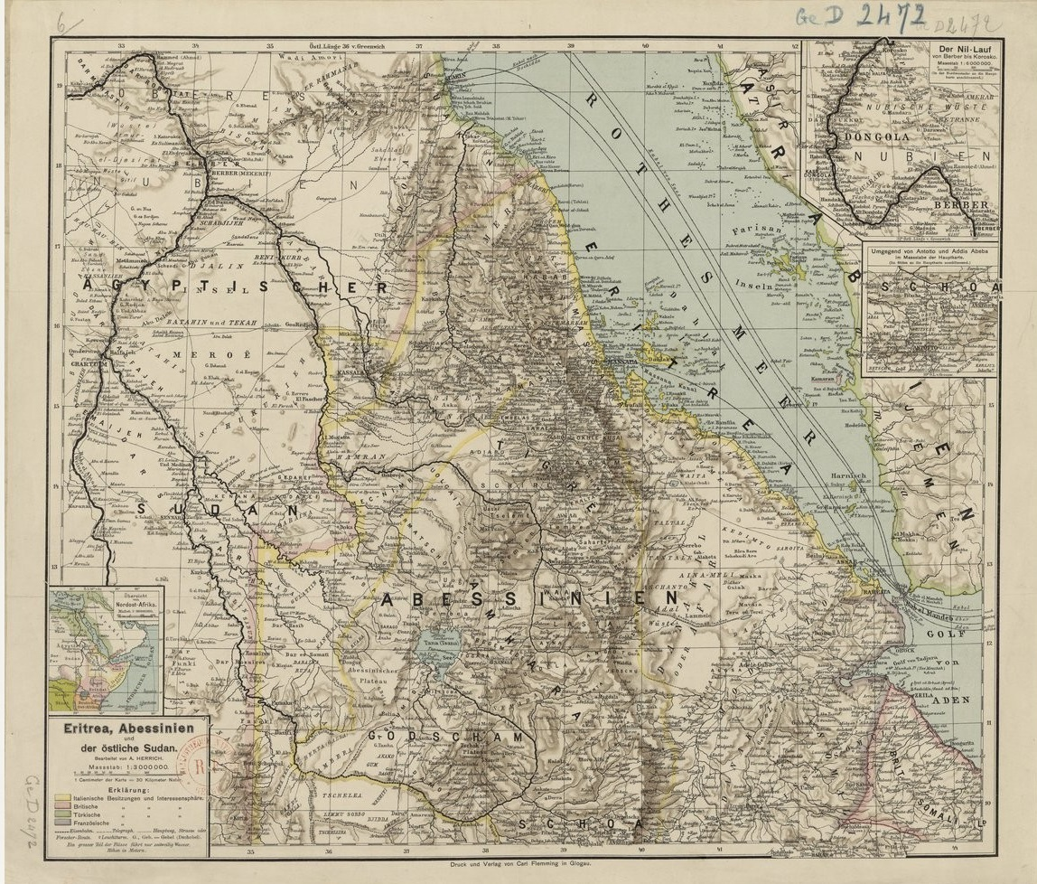 Map of Eritrea, Sudan and Abyssinia 1896